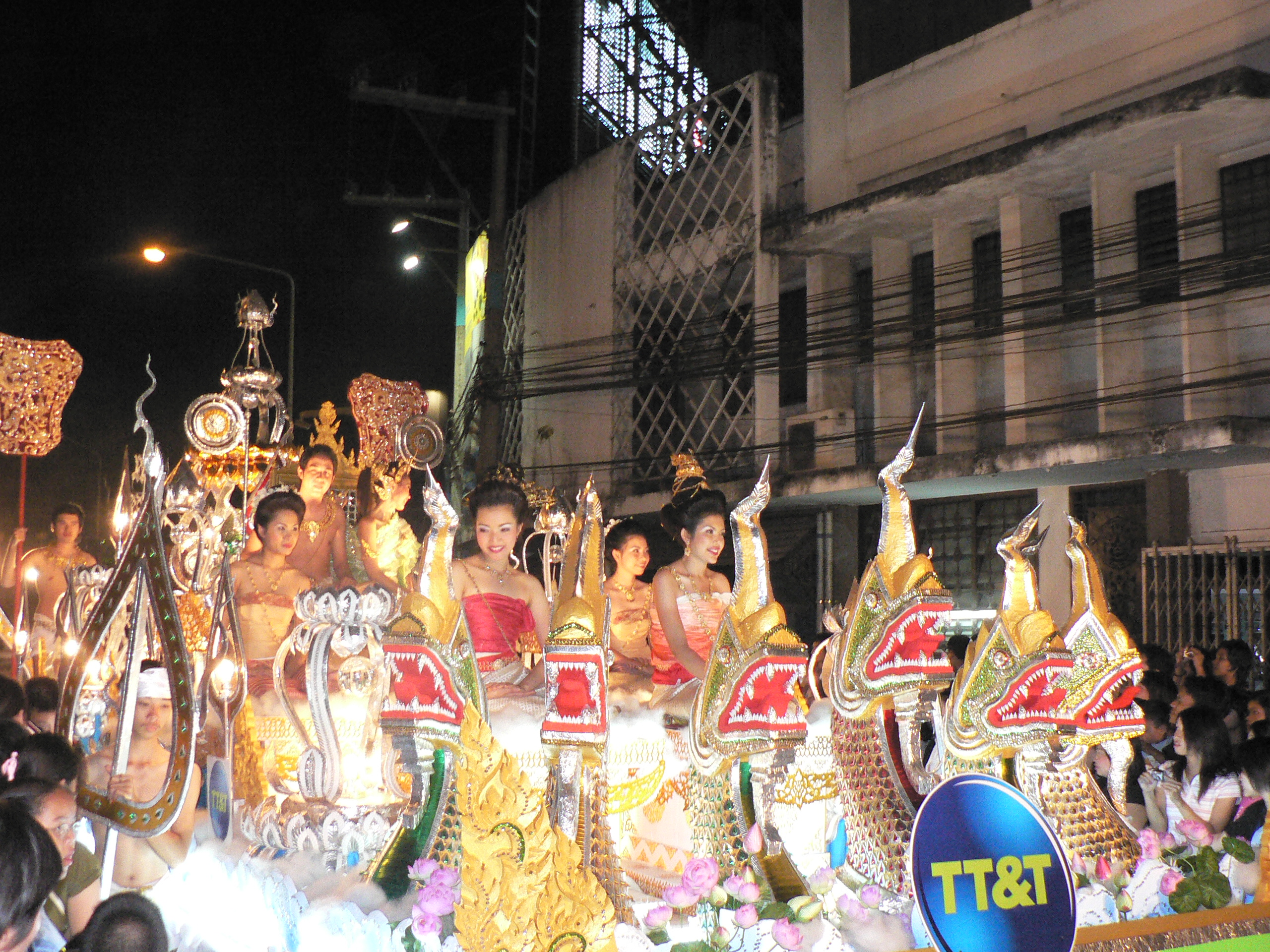 Loi Krathong, Chiang Mai 2005